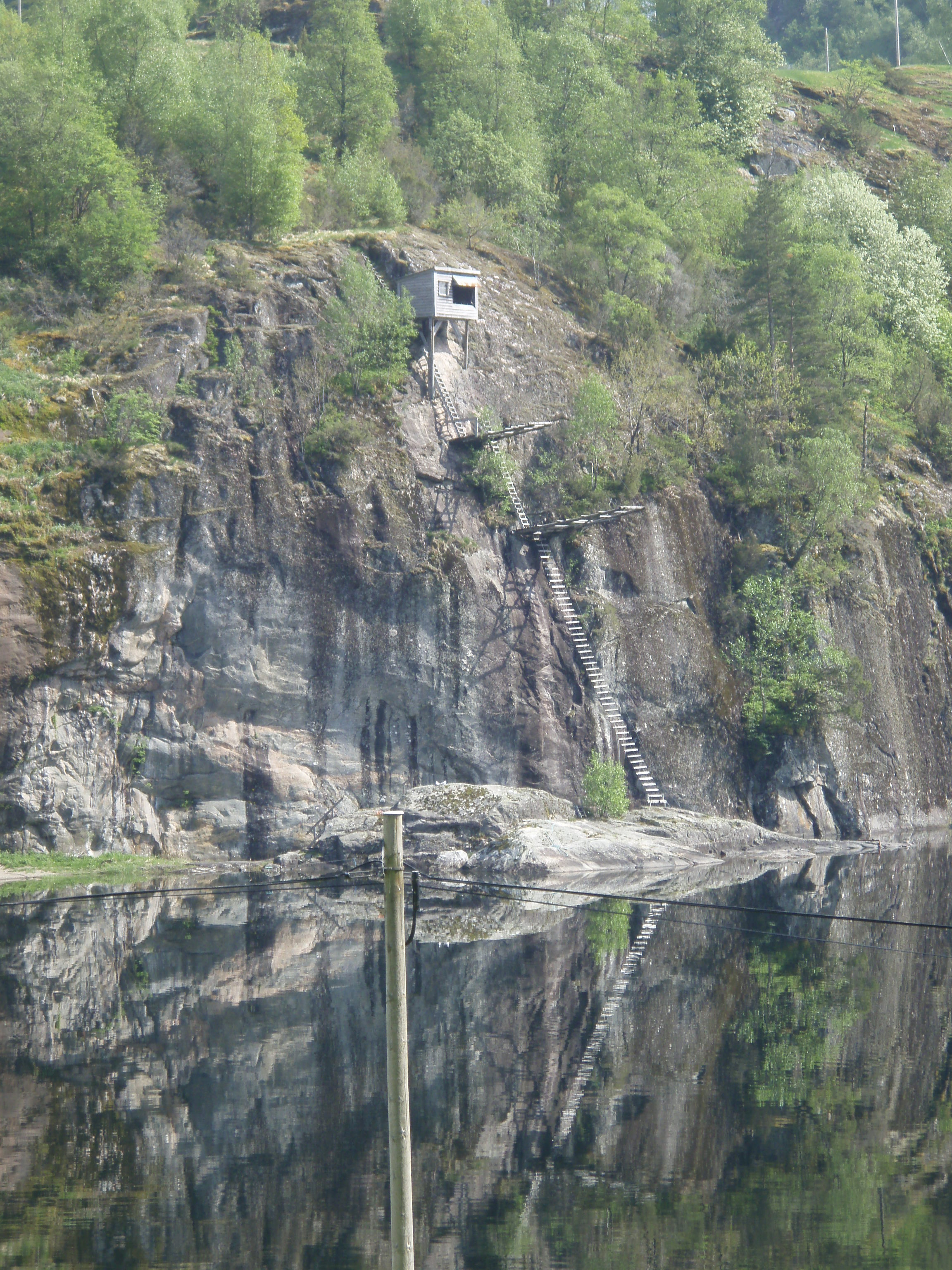 old salmonfishing-method from a "Gilje" (ol' norse name for such kinda place, extended thru times to include totality)